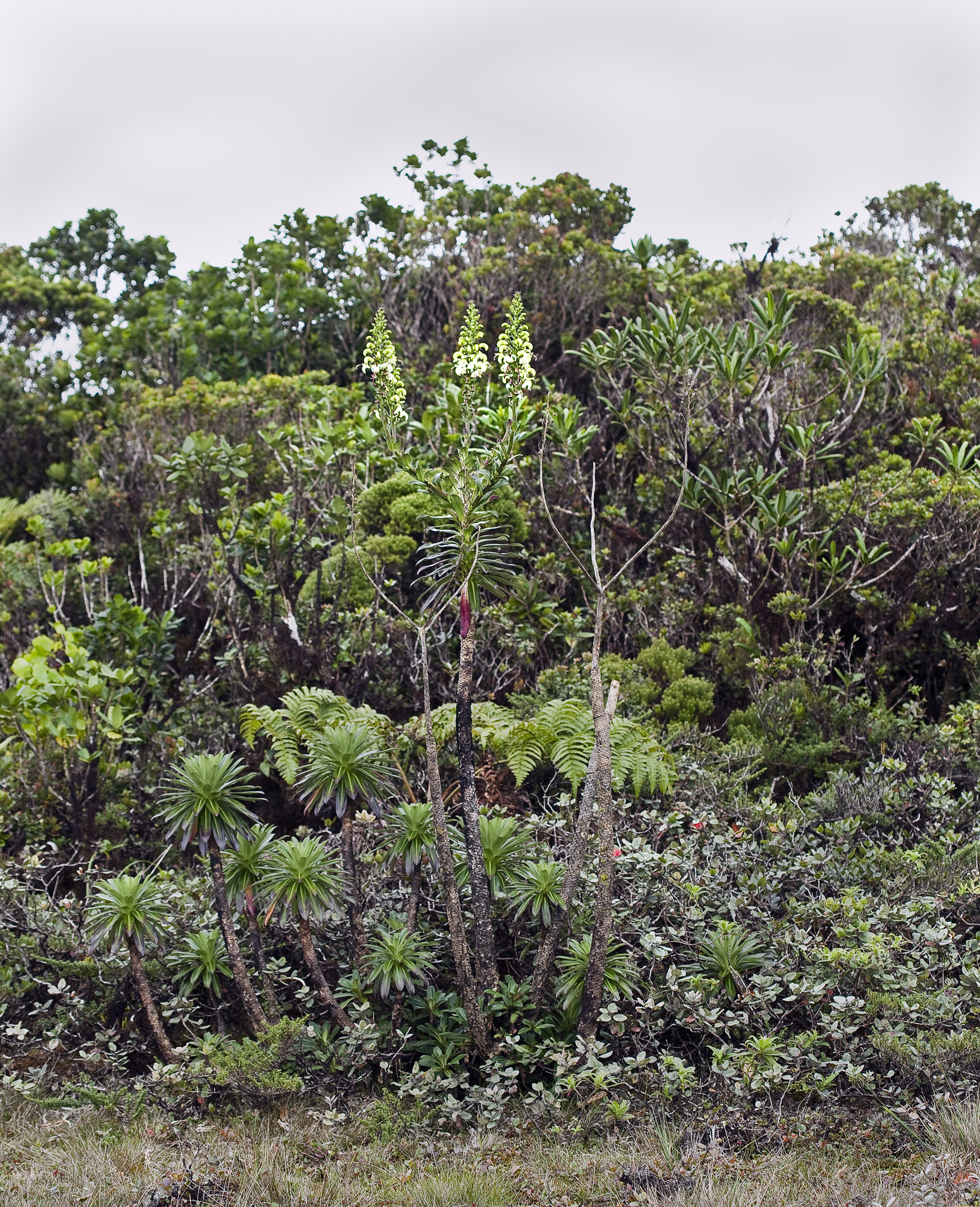 Lobelia villosa (alakai swamp lobelia). On the edge of a forest opening in boggy country in the vicinity of Kilohana Lookout, Alakai region, Kauai.